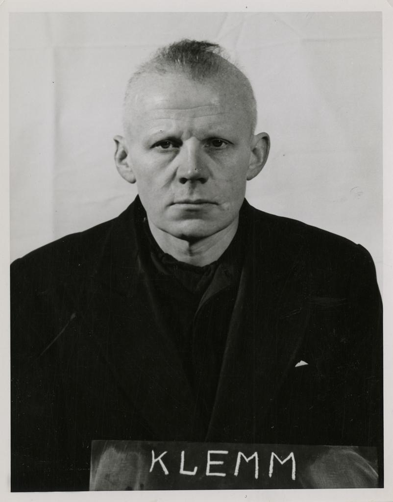 Herbert Klemm (1903-?) was a high ranking official (Staatssekretär) in the German Ministry of Justice (Reichsjustizministerium) during the Second World War. This photograph of Klemm (probably as a defendant during the Nurmeberg Trials No. III - the Justice Case) was taken by US Army photographers on behalf of the Office of the U.S. Chief of Counsel for the Prosecution of Axis Criminality (OUSCCPAC, May 1945 - Oct. 1946) or its successor organization, the Office of Chief of Counsel for War Crimes (OCCWC, Oct. 1946 - June 1949).